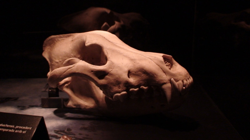 Canis mosbachensis skull from Atapuerca